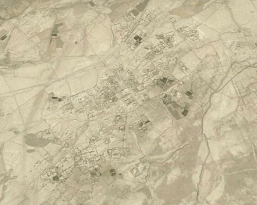 Shot from space from 3.28 km.